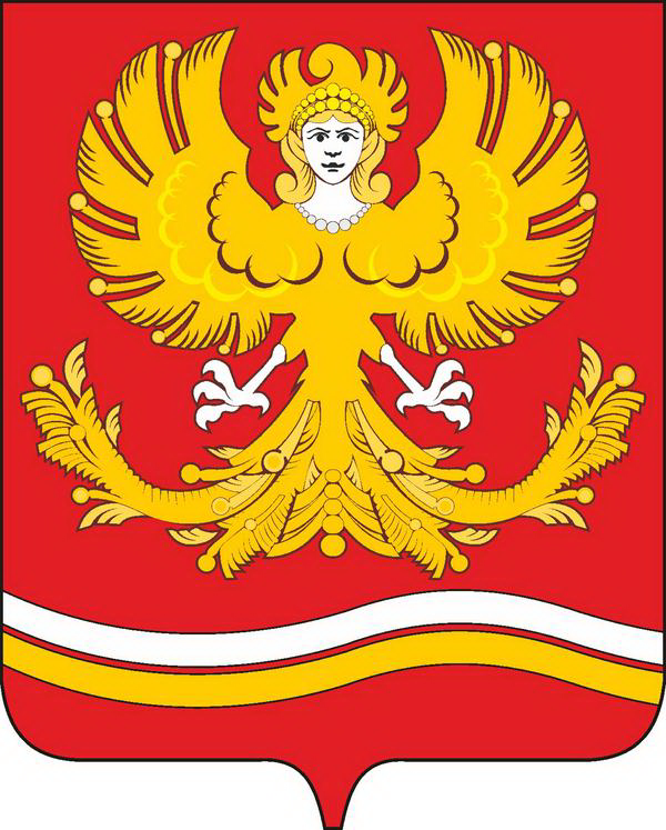 Mikhailovsk (Sverdlovsk oblast), coat of arms